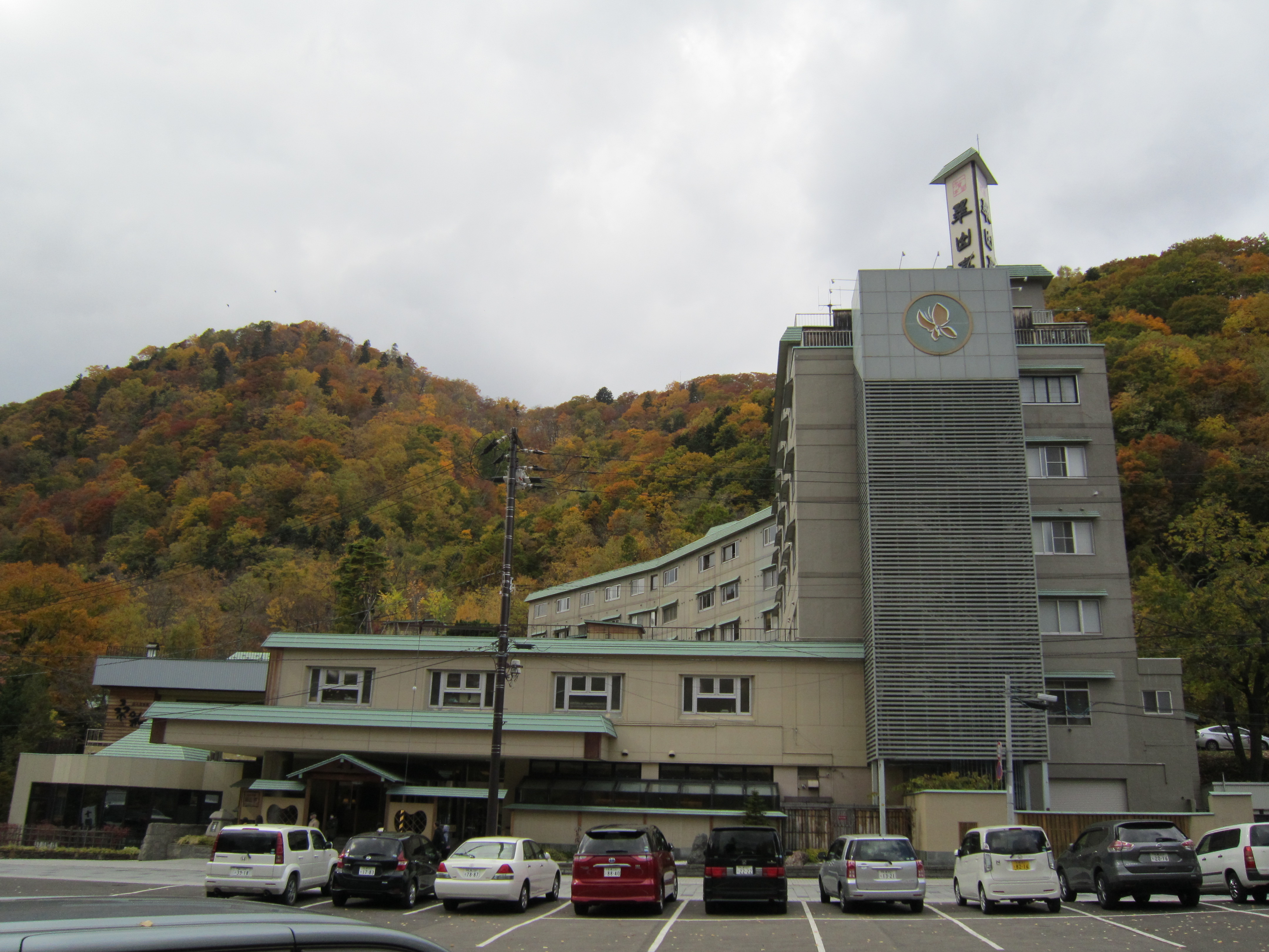 Jozankei Dai-ichi Hotel Suizantei